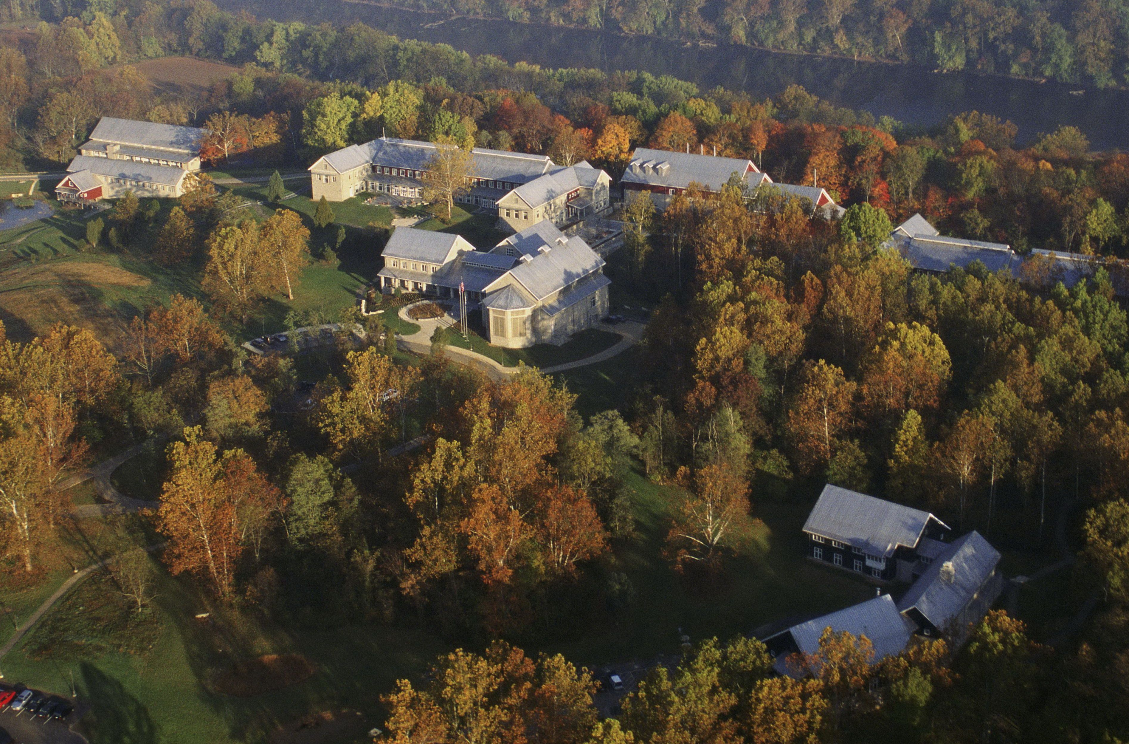 Image title: USFWS National Conservation Training Center, Shepherdstown, West Virginia, USA Image from Public domain images website